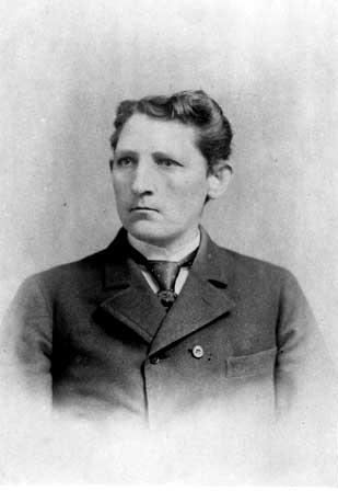 Andrew Furuseth (March 12, 1854 - January 22, 1938) of Romedal, Norway was a merchant seaman and an American trade labor leader. Furuseth was active in the formation of two influential maritime unions: the Sailor's Union of the Pacific and the International Seamen's Union, and served as the executive of both for decades.